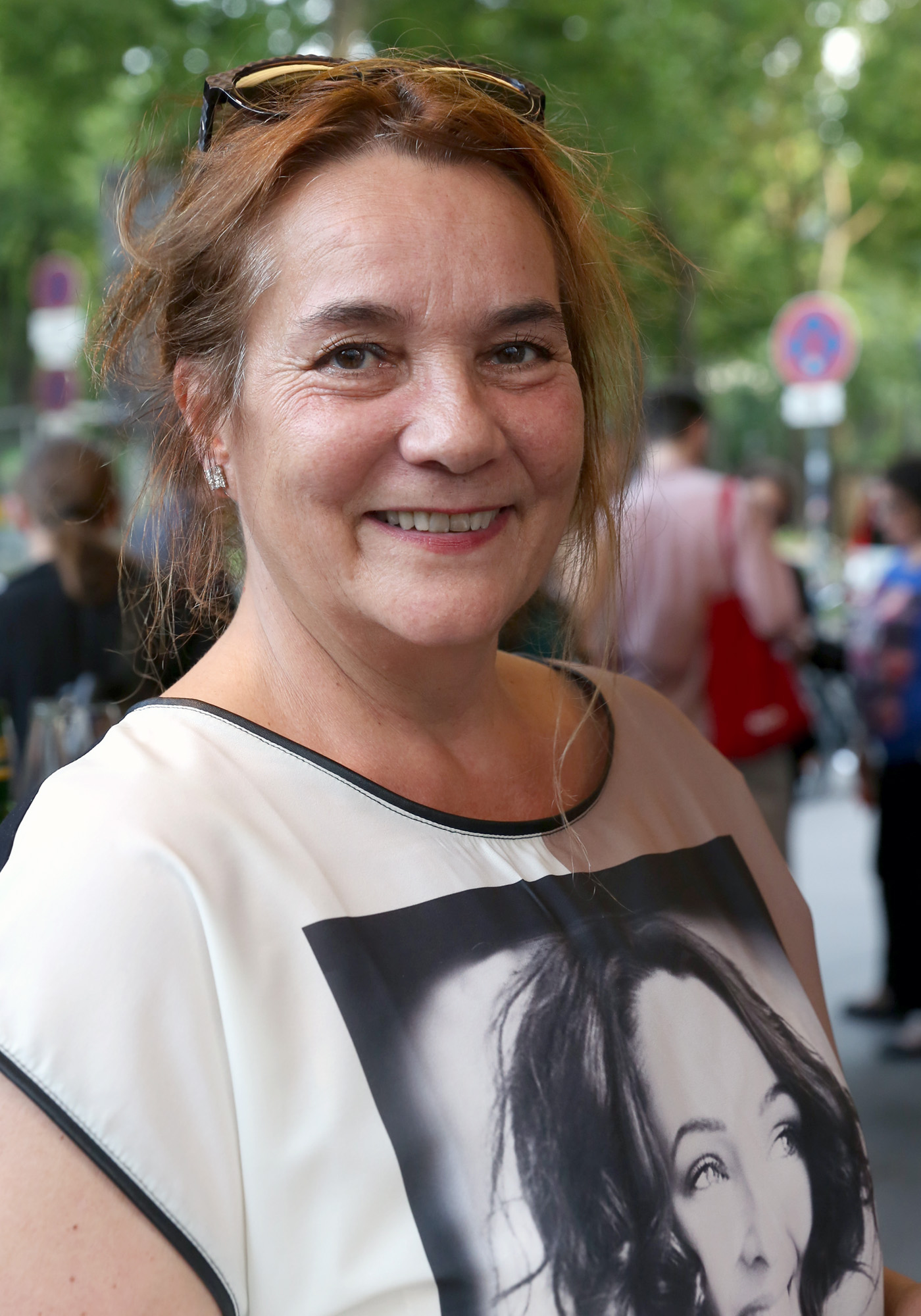 Patricia Hirschbichler at the opening of the film festival Vienna Independent Shorts 2014 at Gartenbaukino in Vienna, Austria.